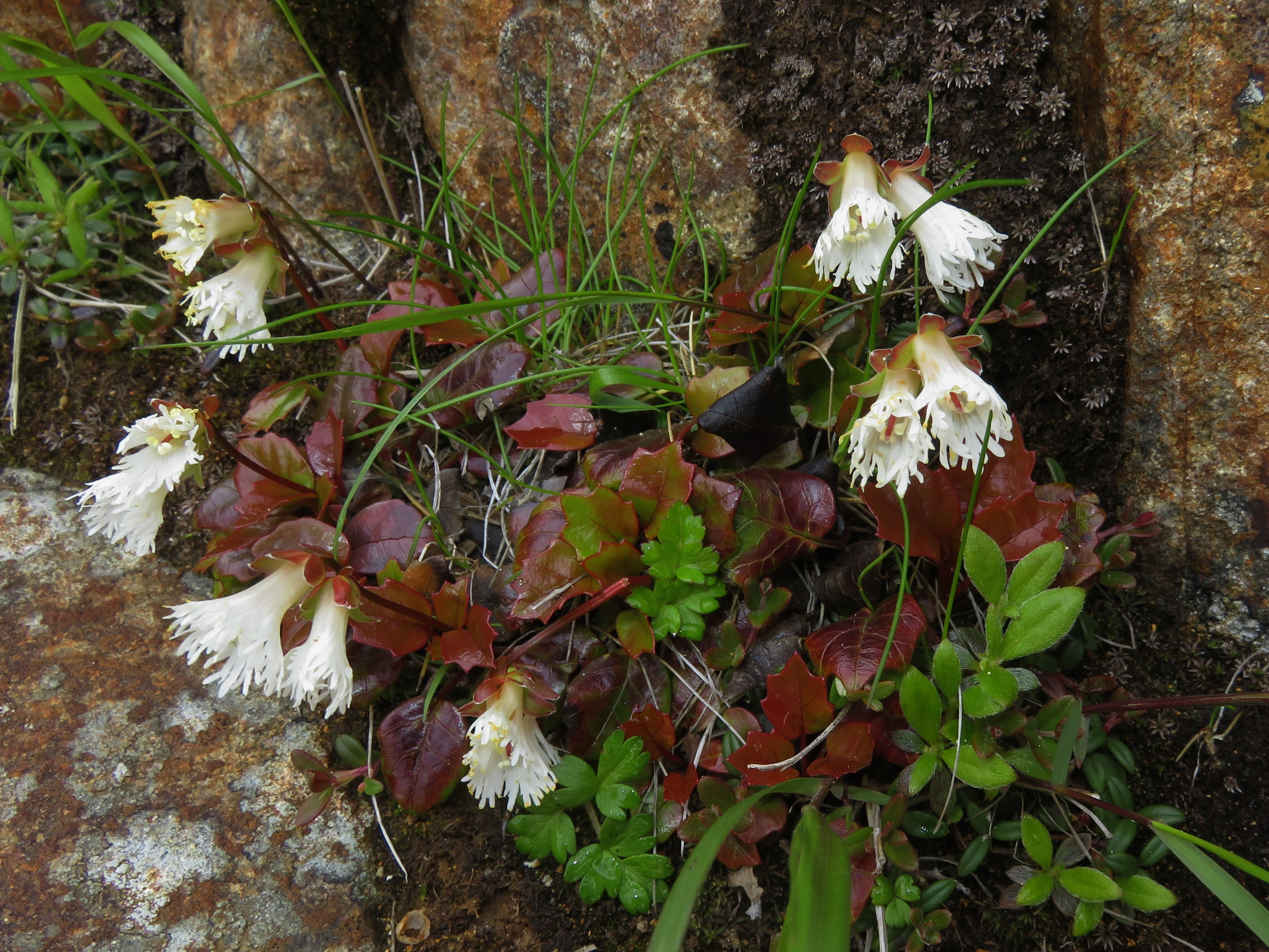 Schizocodon ilicifolius, Mount Nasu, Tochigi pref., Japan